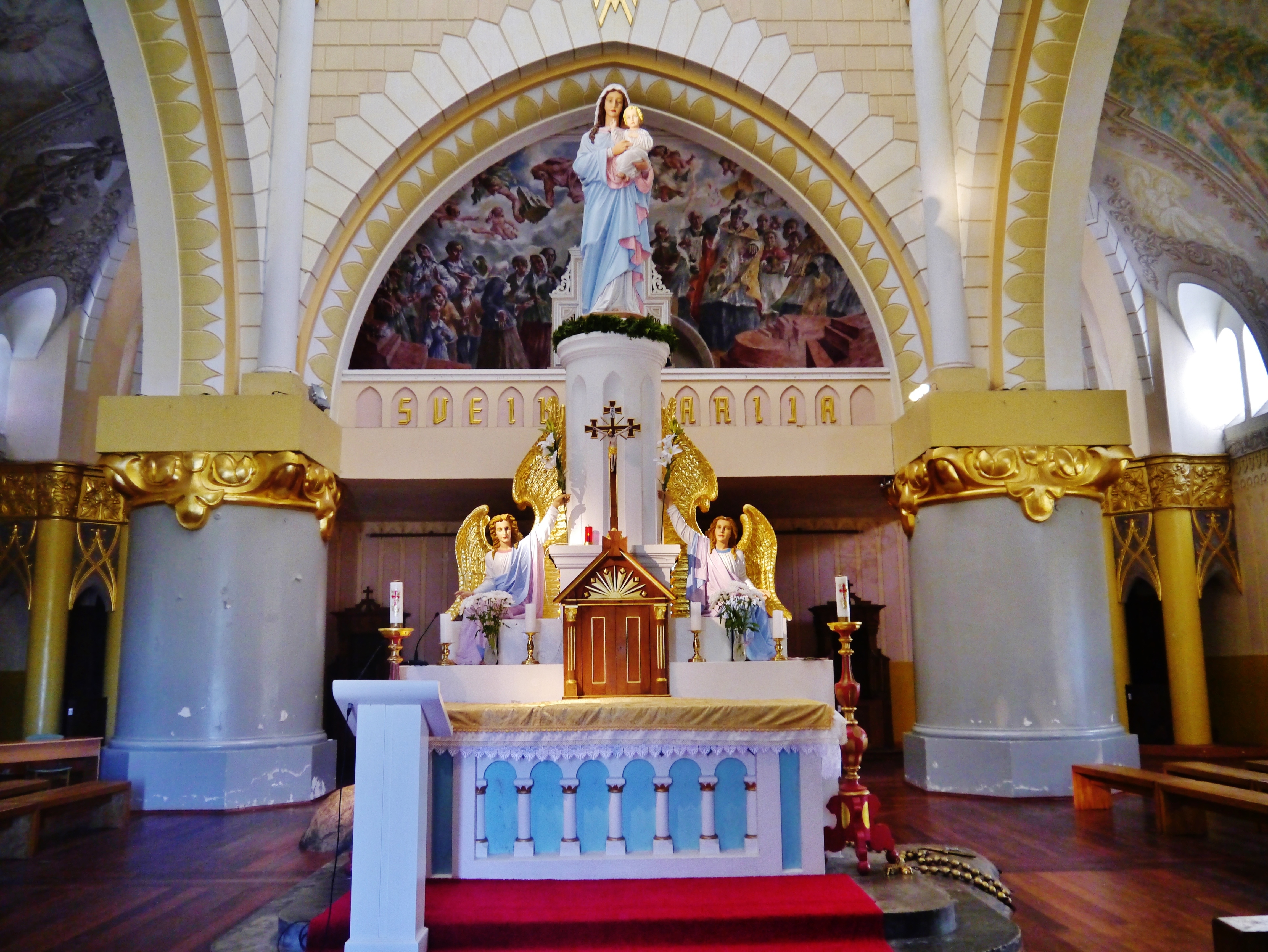 Altar of St. Mary's Chapel, Siluva, Lithuania